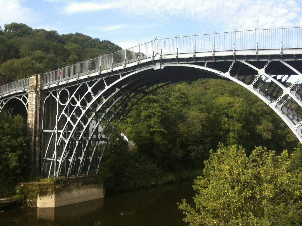 Shot of Iron Bridge from the village side of the Severn.